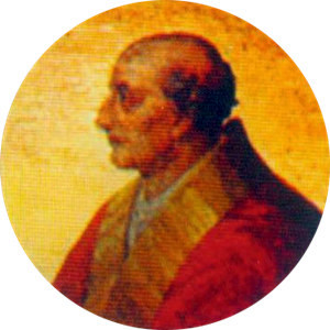 Portait of Pope Alexander IV in the Basilica of Saint Paul Outside the Walls, Rome